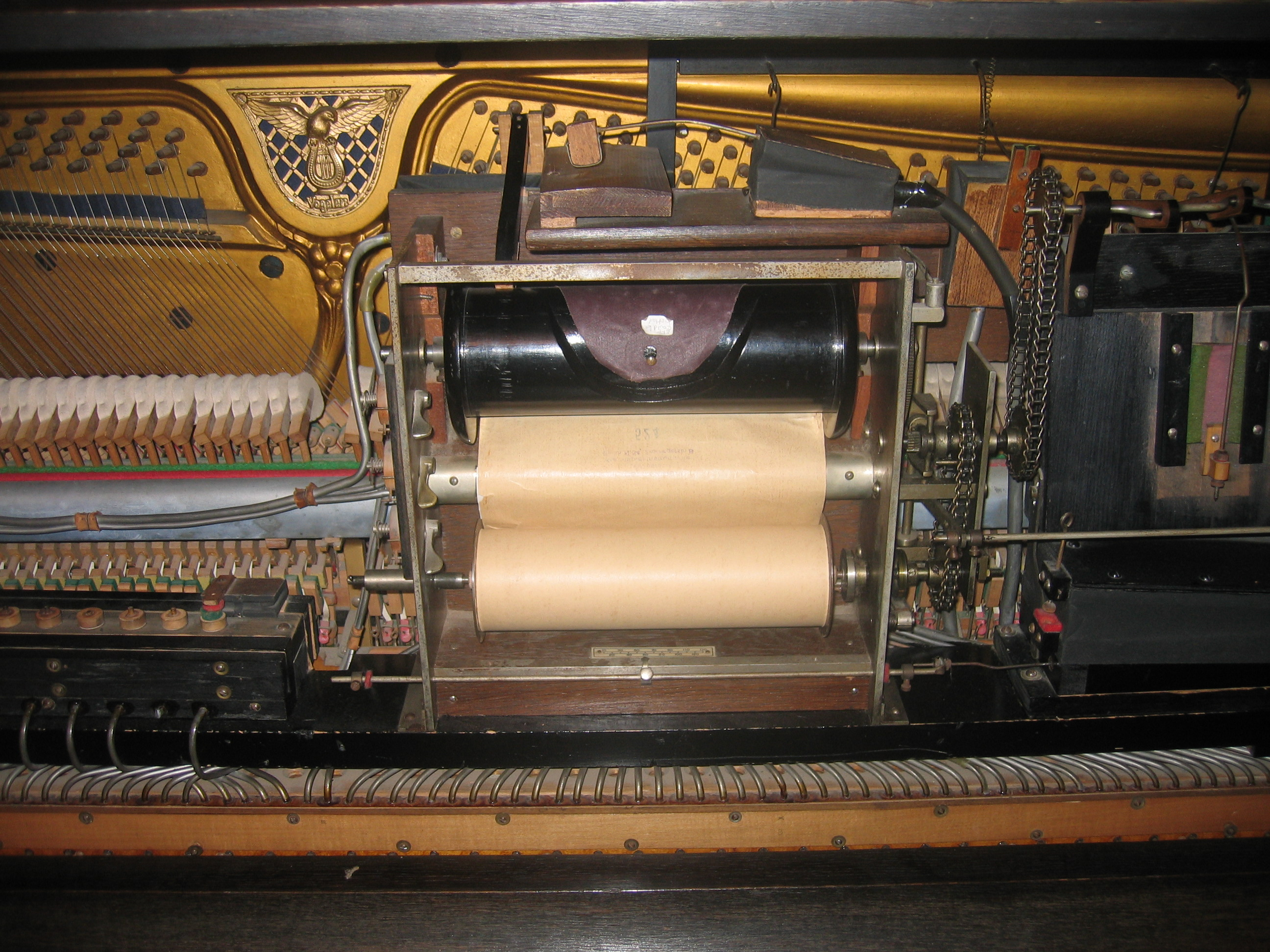 Seen at a museum of mechanical musical instruments in Northleach, England (a village in Gloucestershire, between Cirencester and Stow-on-the-Wold). Inner of a player piano